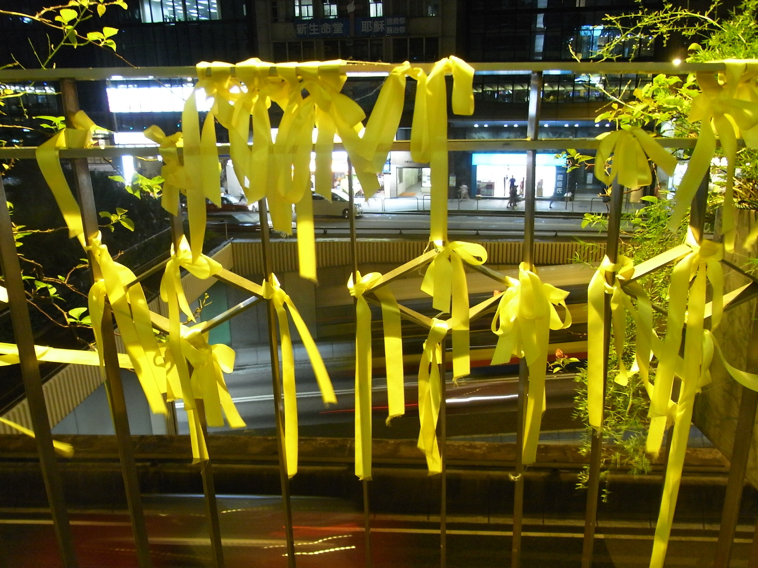 Yellow ribbons, Central, Hong Kong